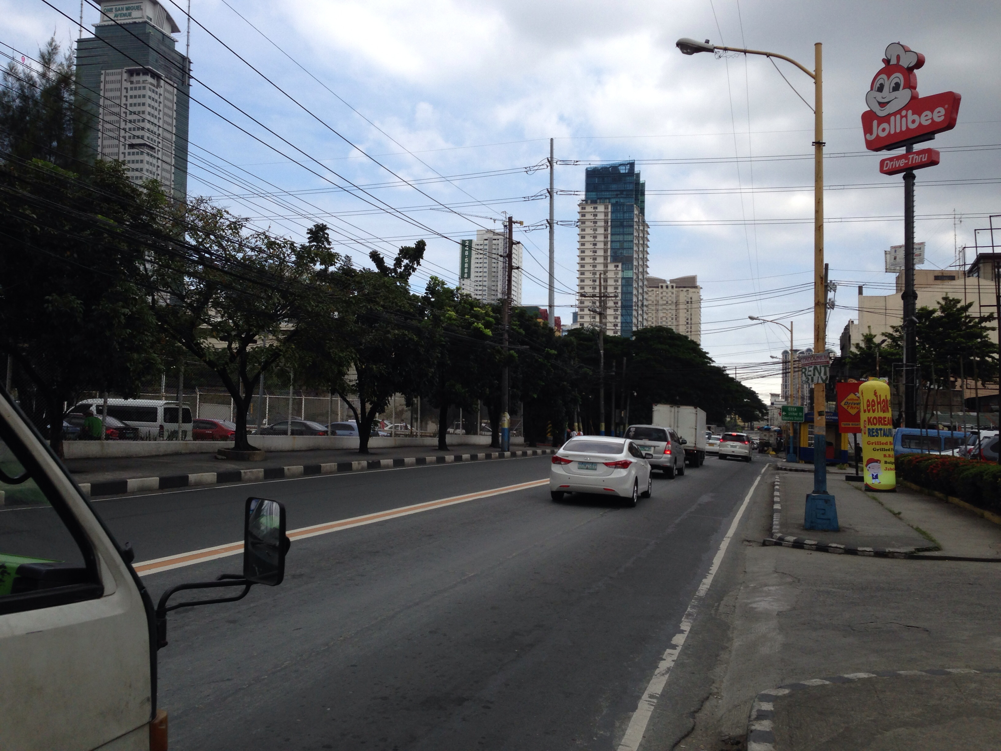 Pioneer Street looking north towards Ortigas Center in Manila